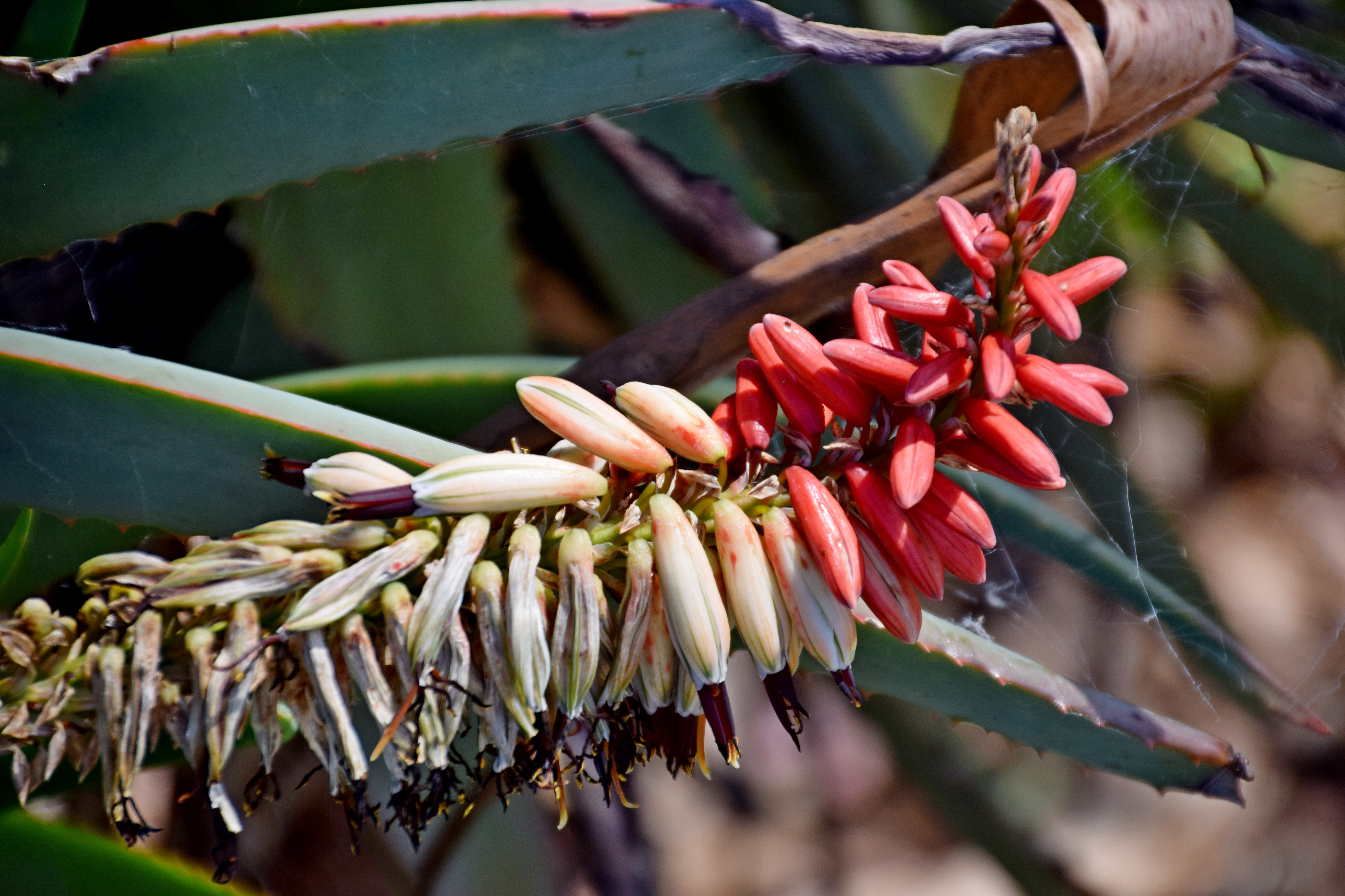 Aloe speciosa in Dunedin Botanic Garden, Dunedin, New Zealand